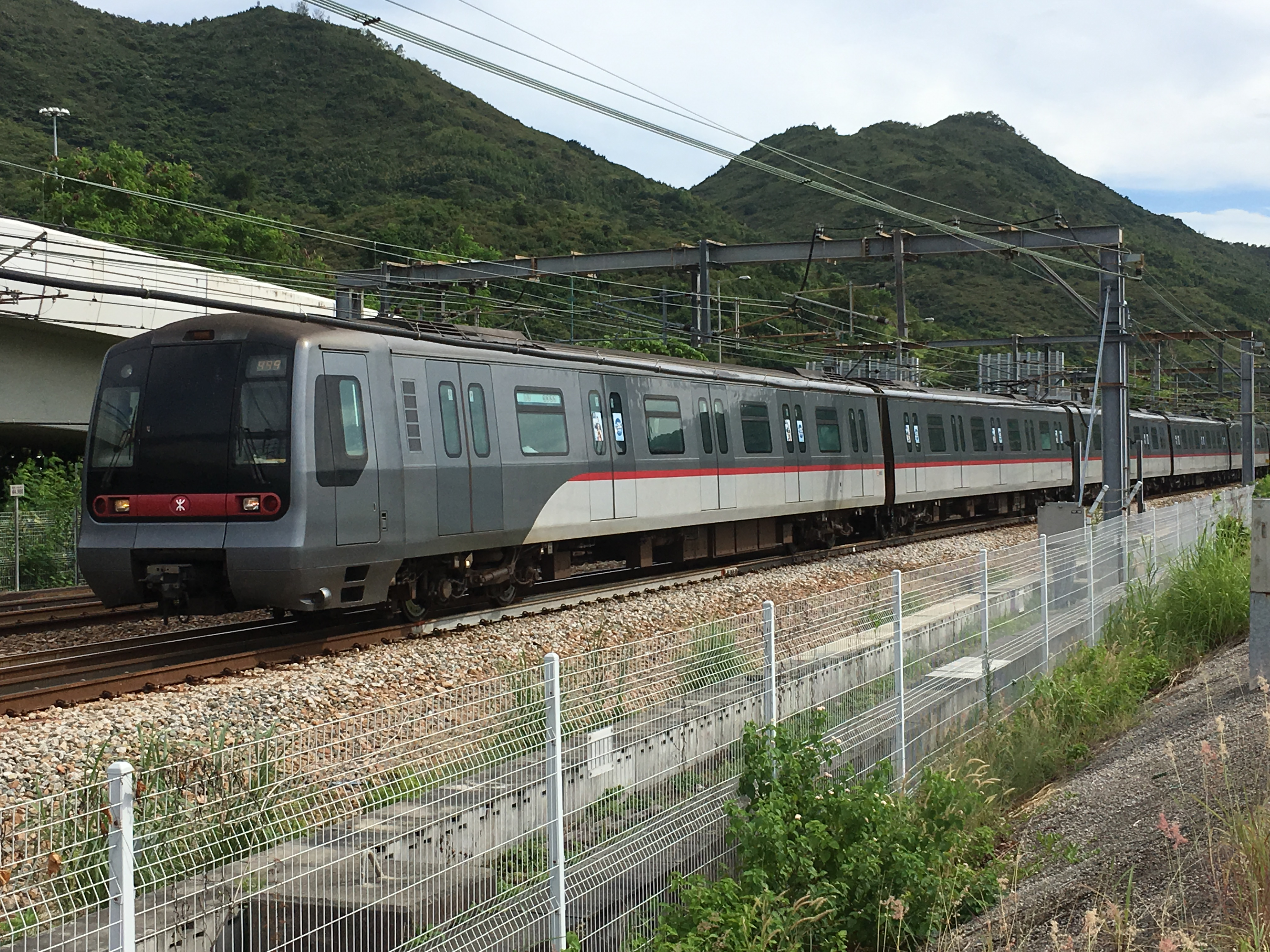 This train is taken near Sunny Bay Station.